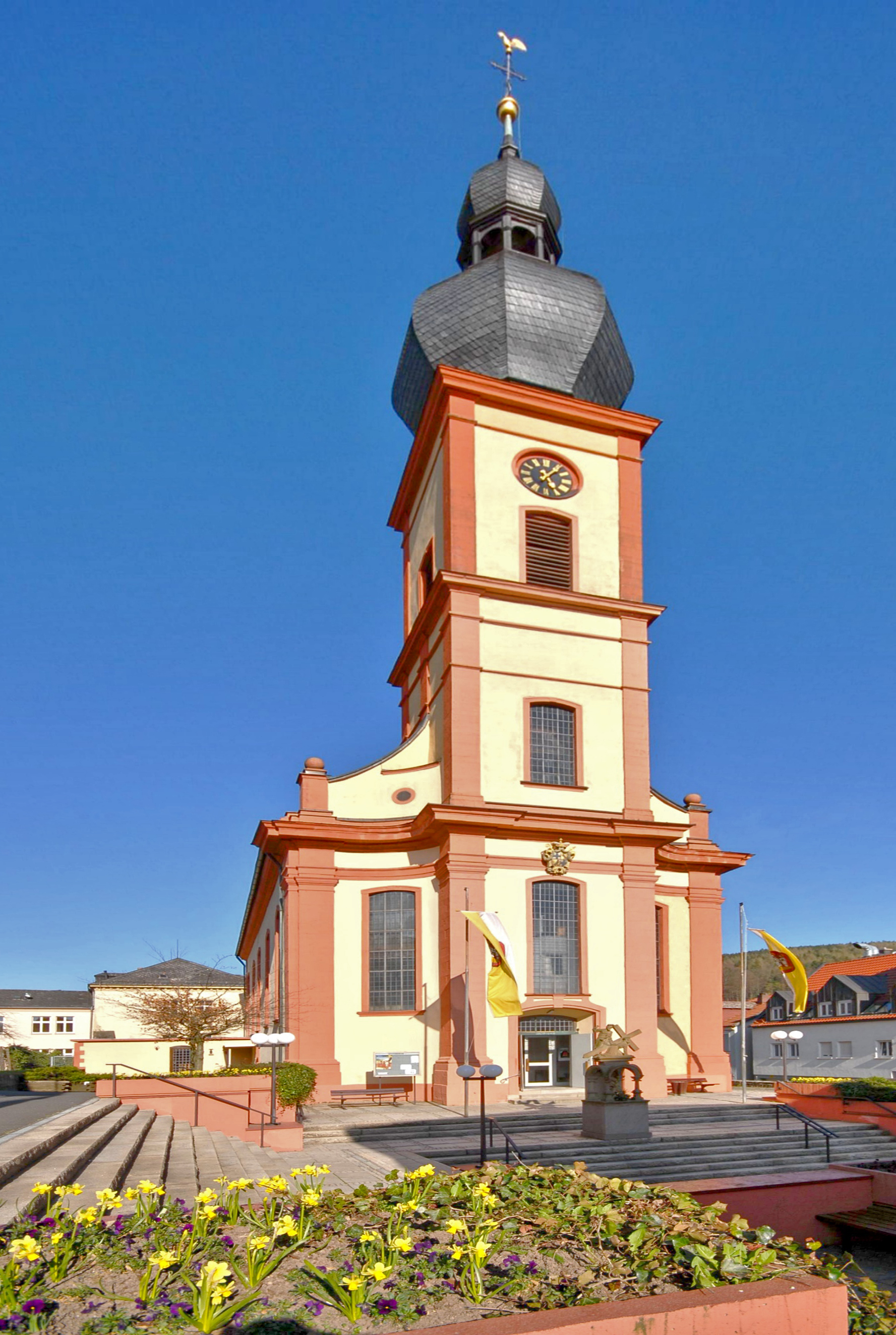 Parisch church St. Bartholomäus